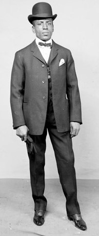 Portrait of Joe Gans, African American boxer, standing, wearing a suit and holding gloves in a room in Chicago, Illinois.